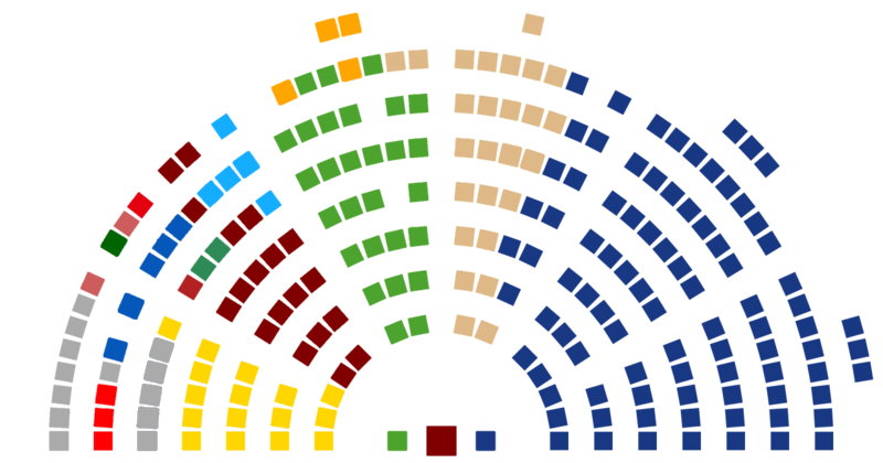 Tunisian Constituent Assembly 2011